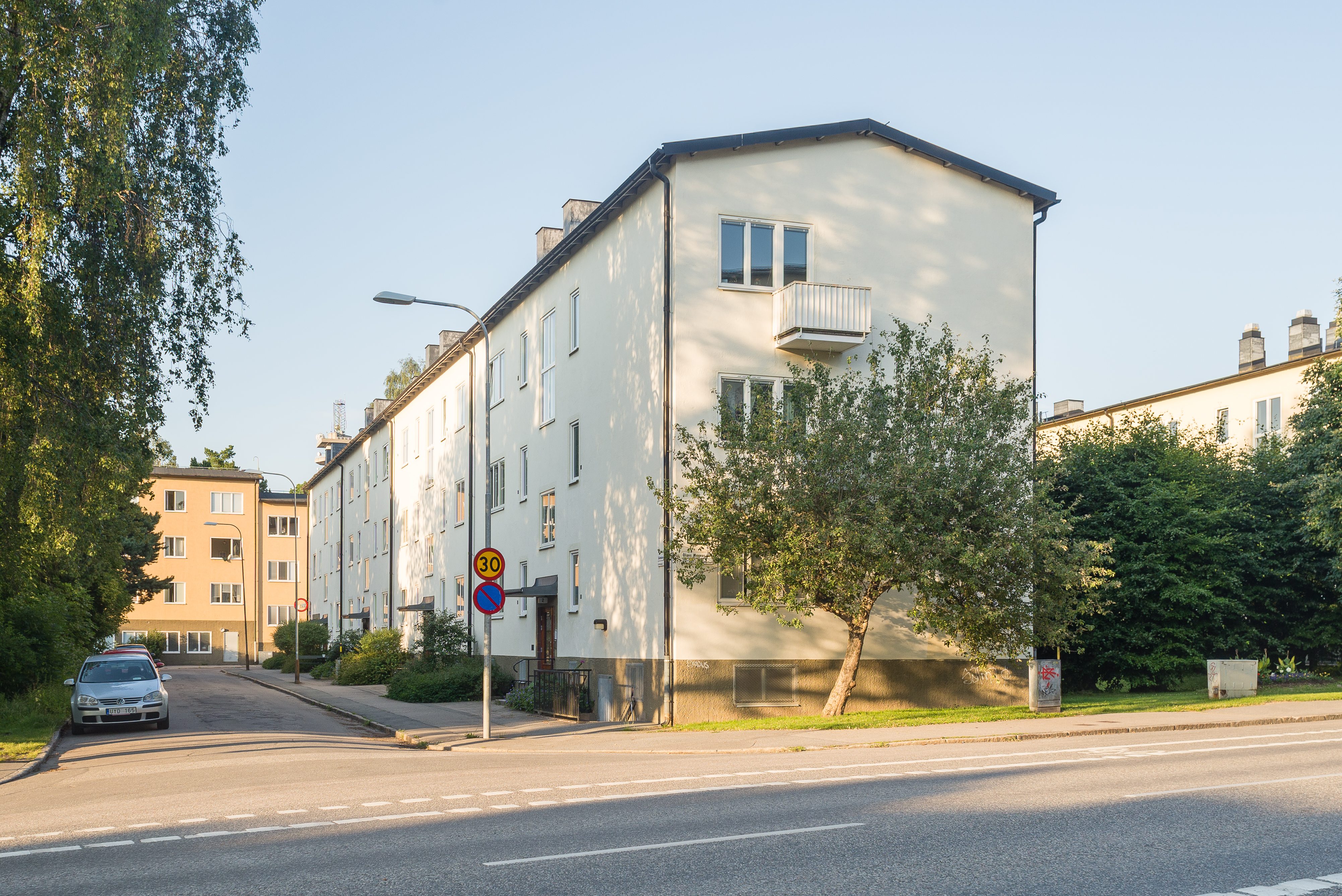 Apartment building on the street Olaus Magnus väg in Hammarbyhöjden, Stockholm. Built 1936-37